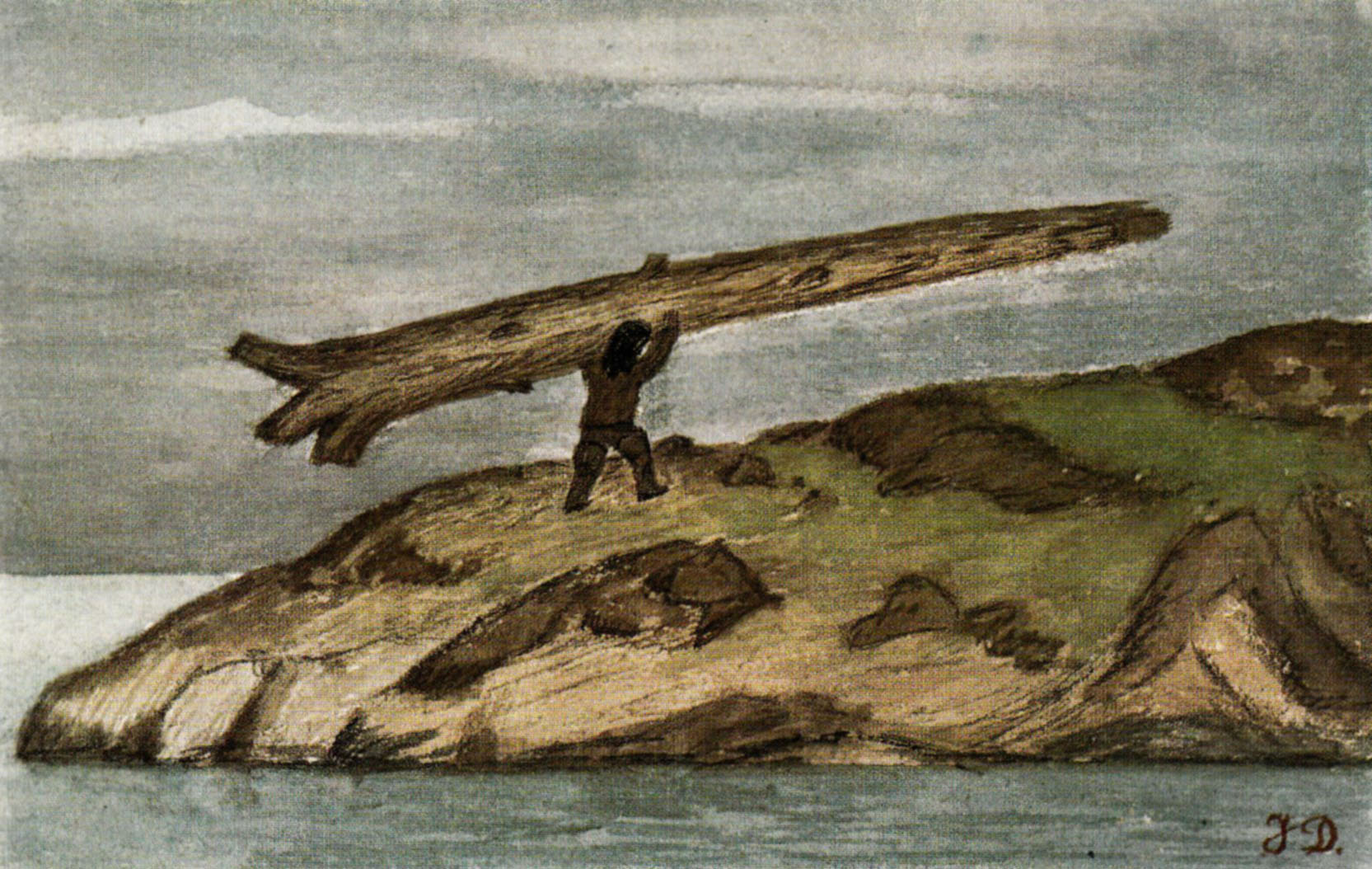 Jakob Danielsen - 06 Kaassassuk carries driftwood